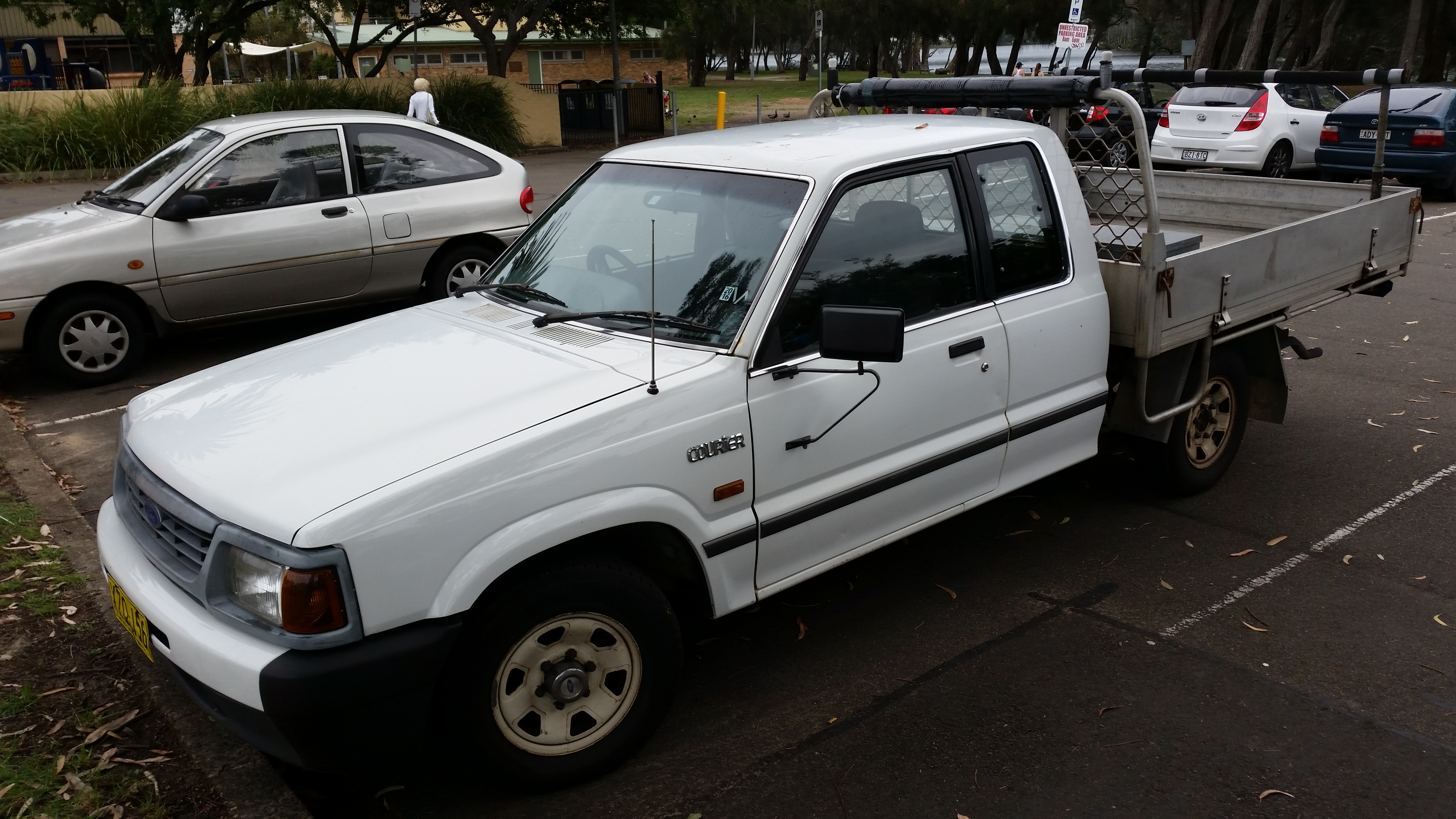 Ford Courier PC Super Cab